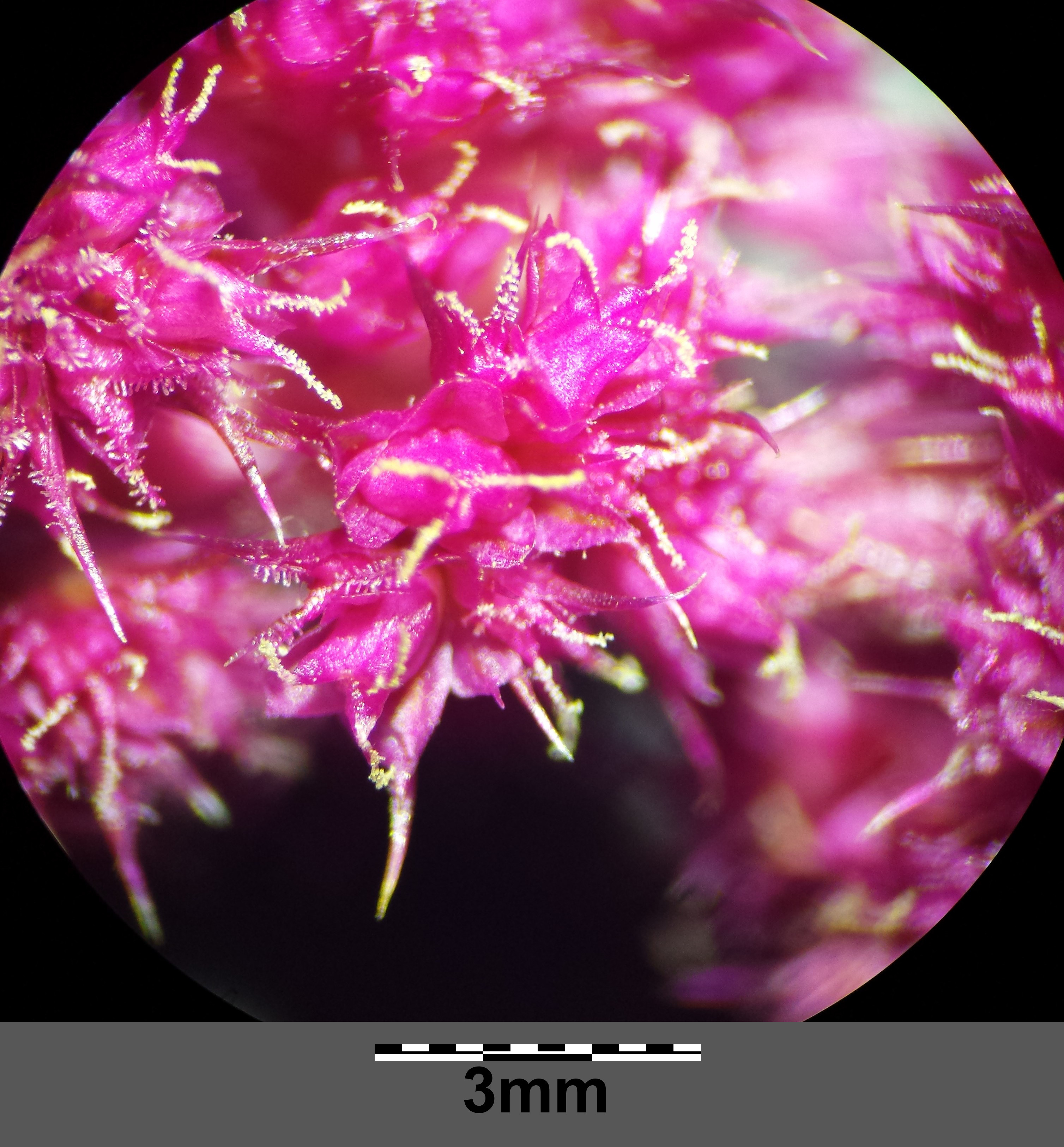 Inflorescence (detail) Taxonym: Amaranthus caudatus ss Fischer et al. EfÖLS 2008 ISBN 978-3-85474-187-9 Location: to the south of Schleinbach, district Mistelbach, Lower Austria - ca. 275 m a.s.l. Habitat: field with pumpkins